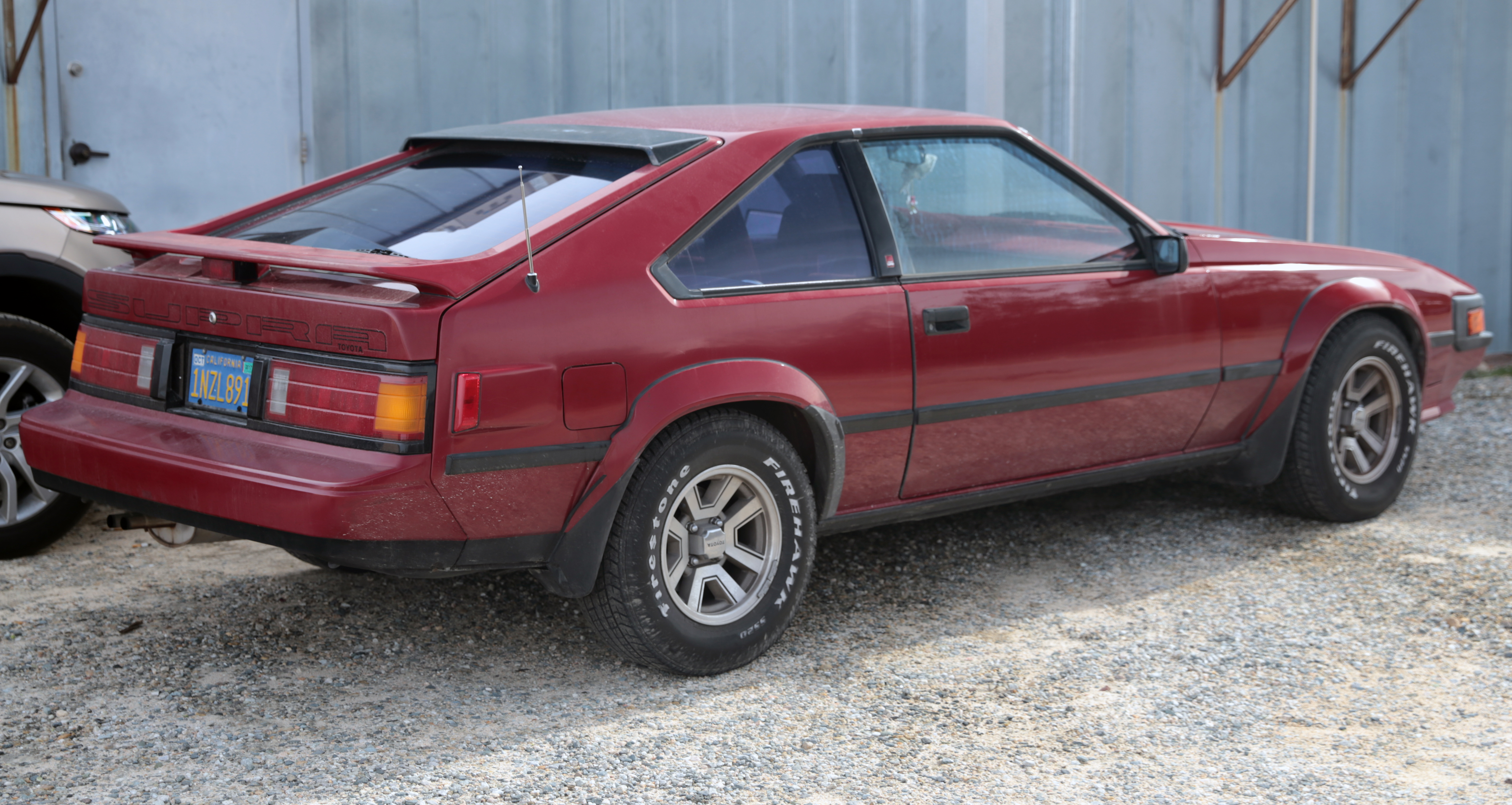 A 1986 Toyota Supra (MA67) in Yucca Valley, CA. 1986 was the only year for the second-generation Supra to receive a high-mounted third stoplight.